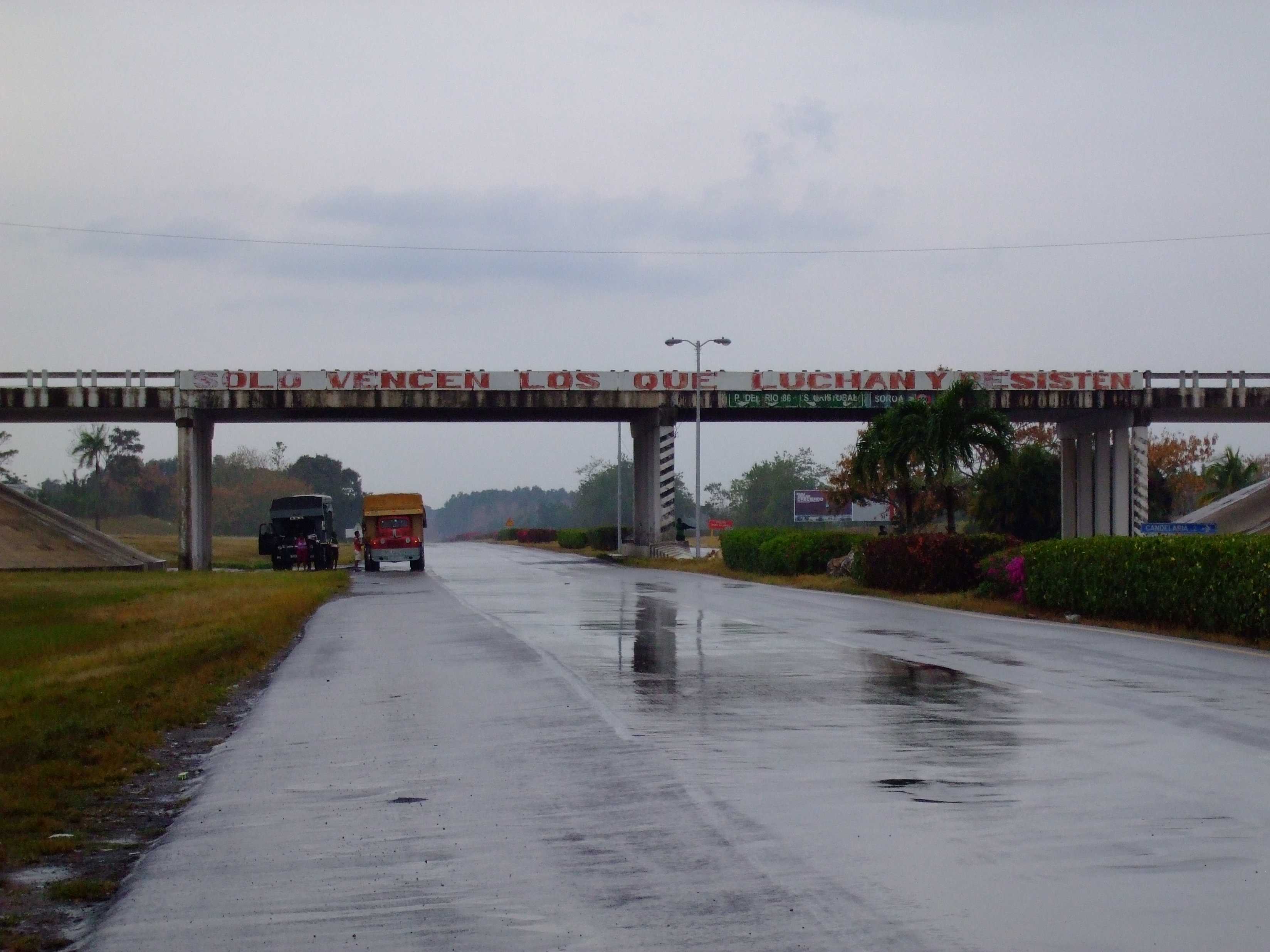 Inscription SOLO VENCEN LOS QUE LUCHAN Y RESISTE at a bridge over the Autopista Este-Oeste from Havana to Pinar del Río.